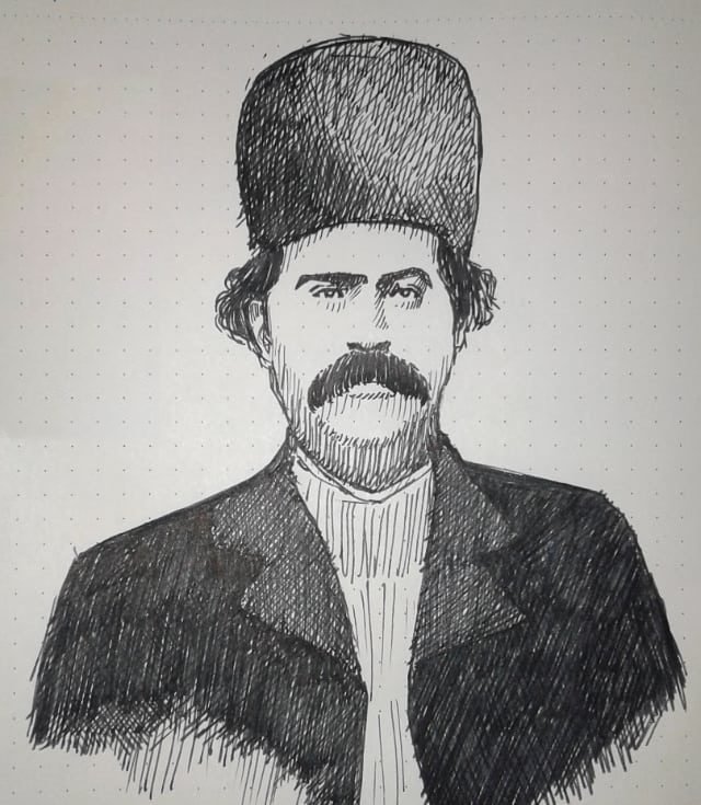 Ahmadkhan Tangestani, son of Bagherkhan tangestani, died in a battle against British army in Bushehr (south of Iran) in 1857.